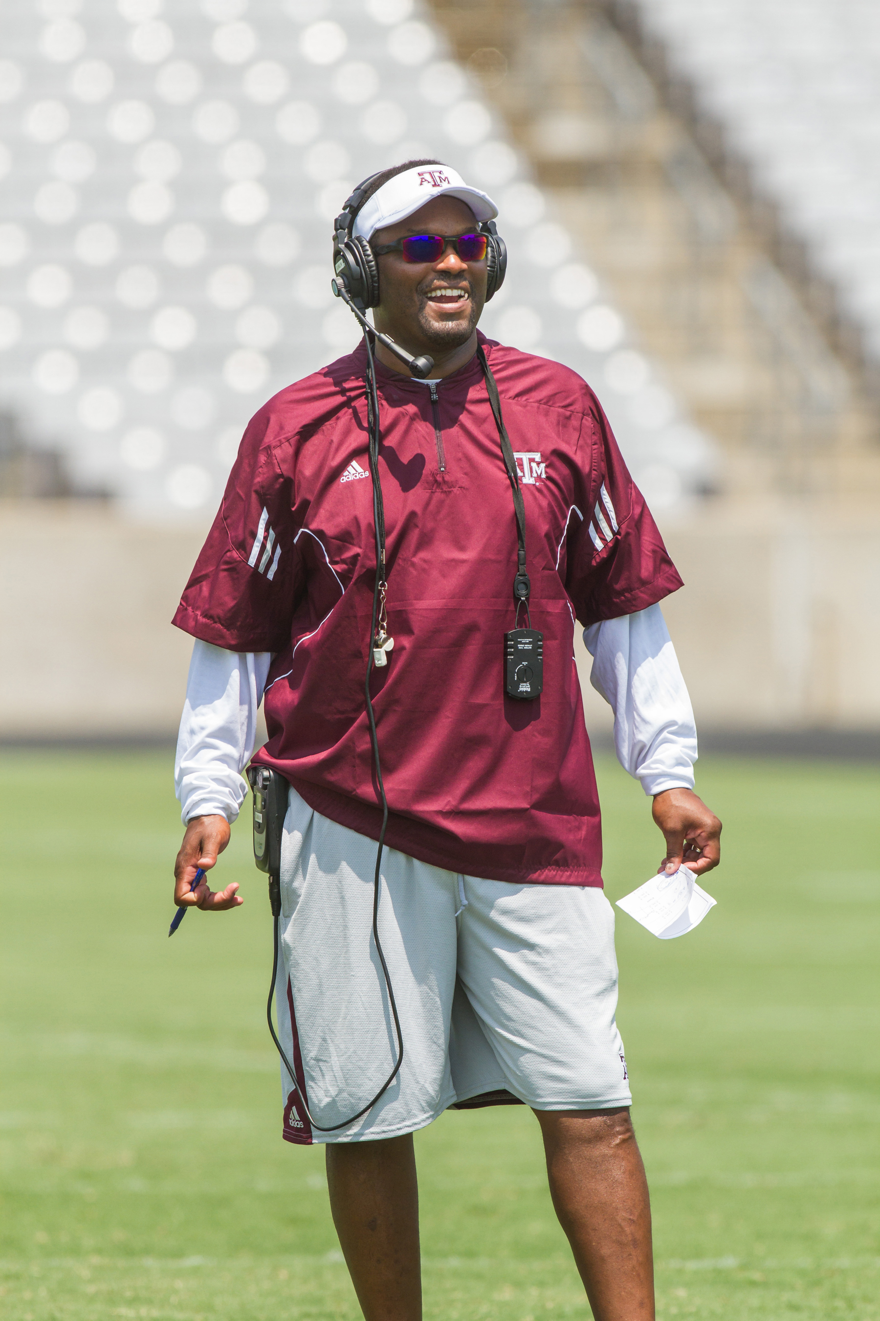 Two-time national coach of the year finalist Kevin Sumlin was named head football coach at Texas A&M on Dec. 10, 2011.